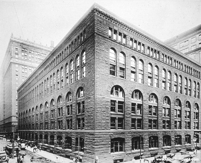 Public domain photo from 1890 Marshall Field's Wholesale Store